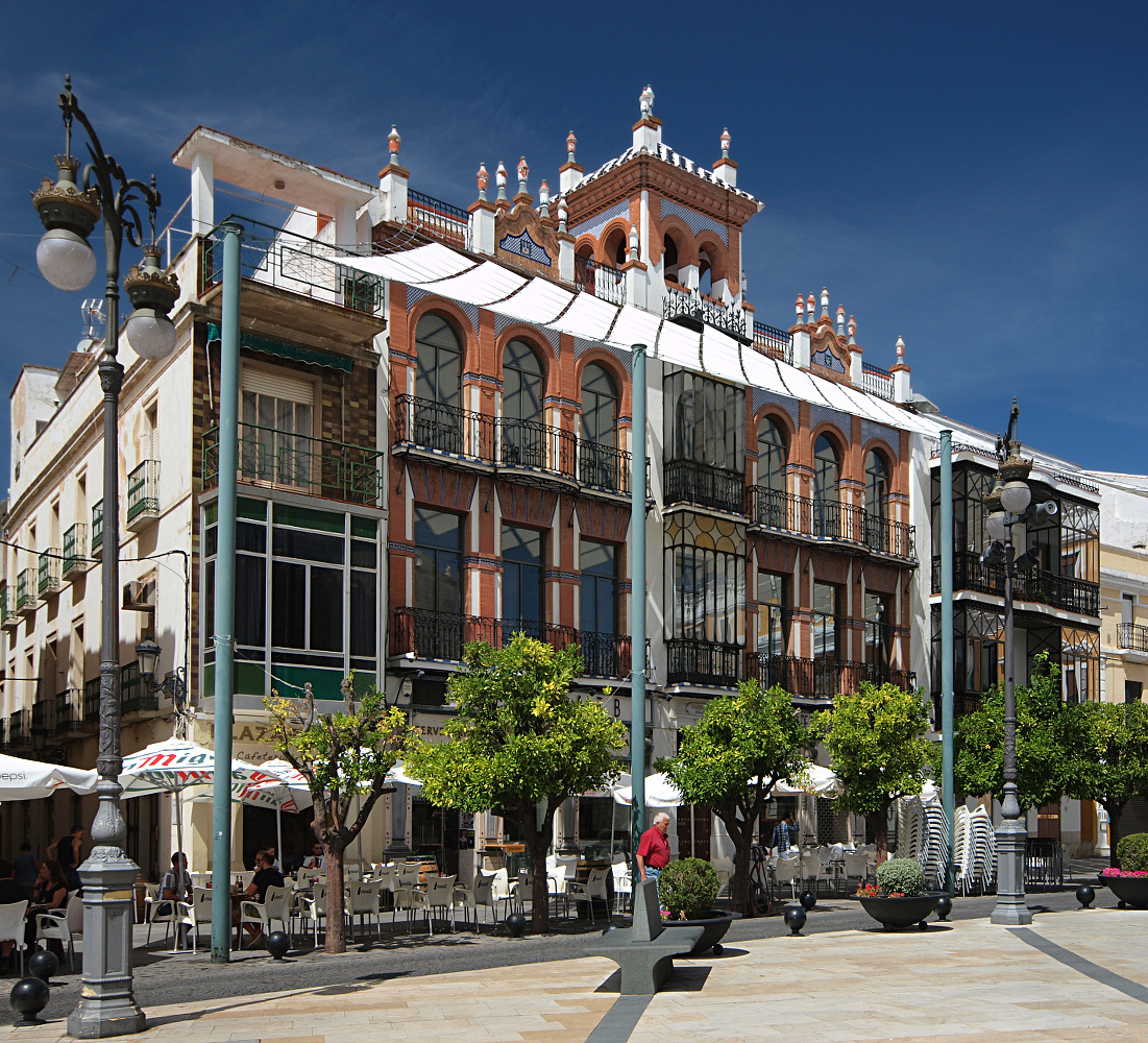 Badajoz, Plaza de España, Alvarez Buiza building